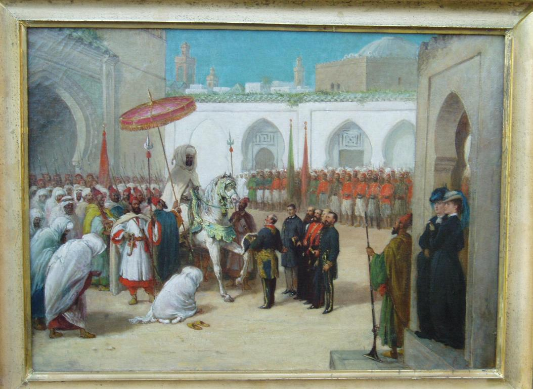 Sultan Muhammad ben Abderrahman IV of Morocco receiving the British Delegation of Tangier, represented by Sir John Drummond-Hay and his staff and family, at the royal palace in Fes, November 23, 1868